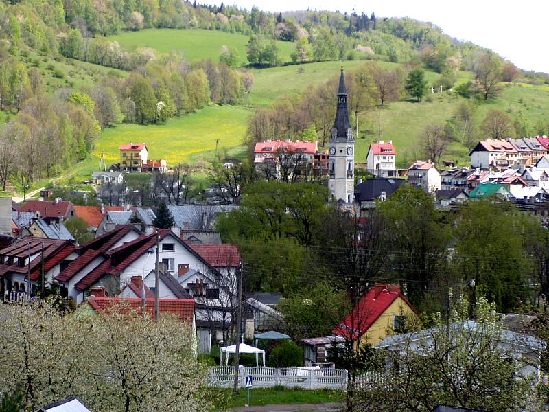 Town Lądek-Zdrój in Lower Silesia (Poland), spring 2005